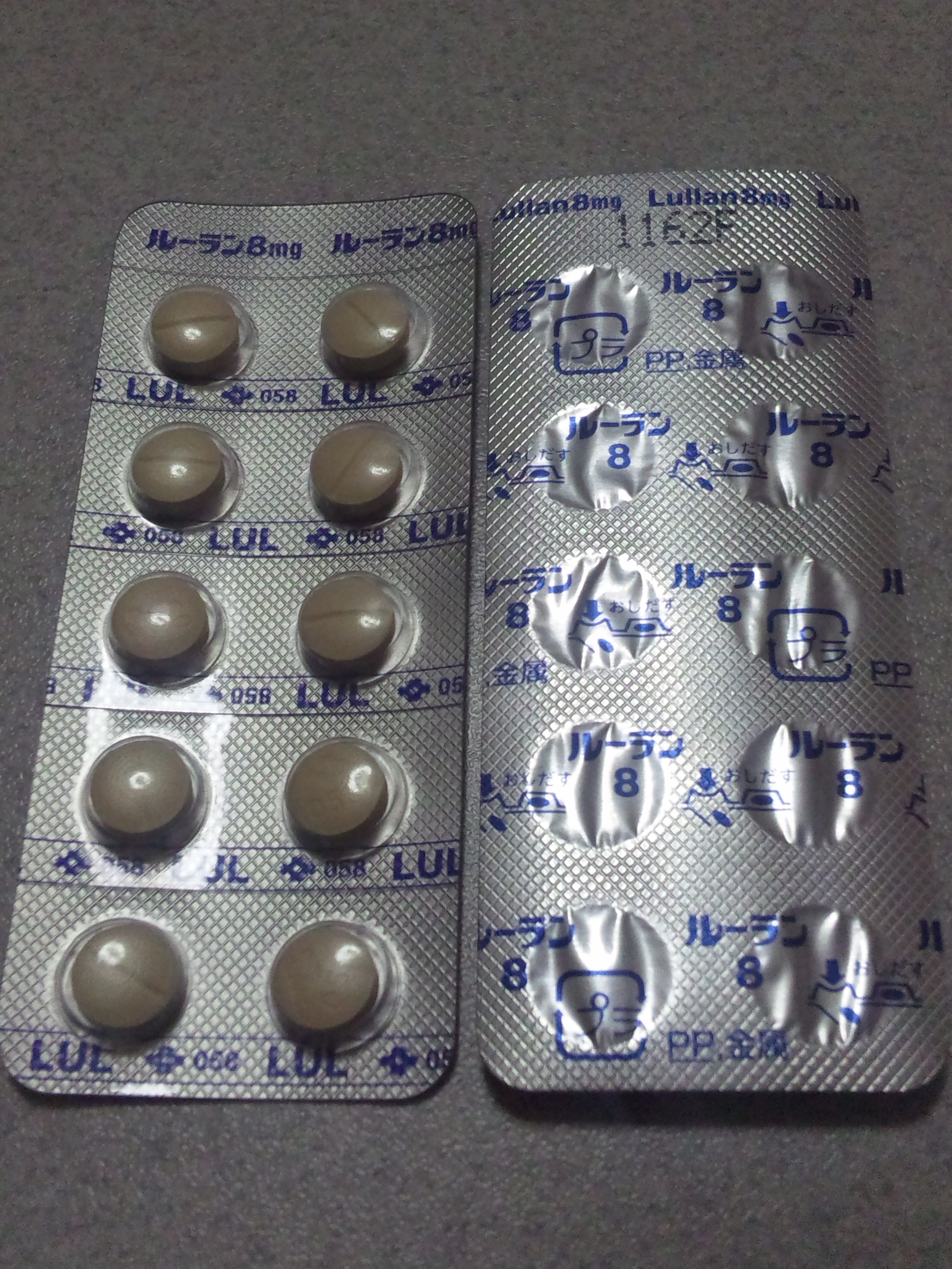 Lullan (perospirone) 8 mg tablets